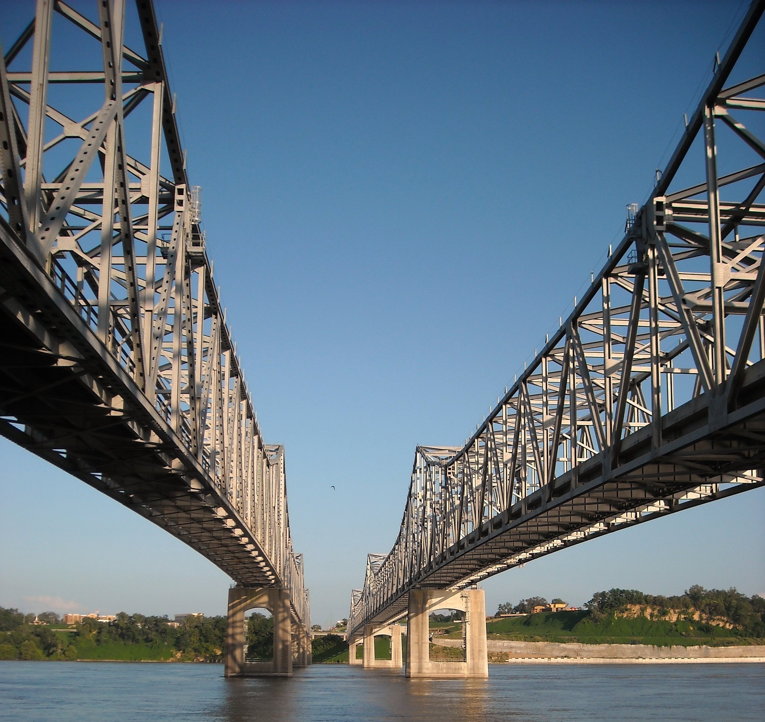 Natchez–Vidalia Bridges are two twin cantilever bridges carrying US Routes 65, 84 and 425 across the Mississippi River between Vidalia, Louisiana and Natchez, Mississippi